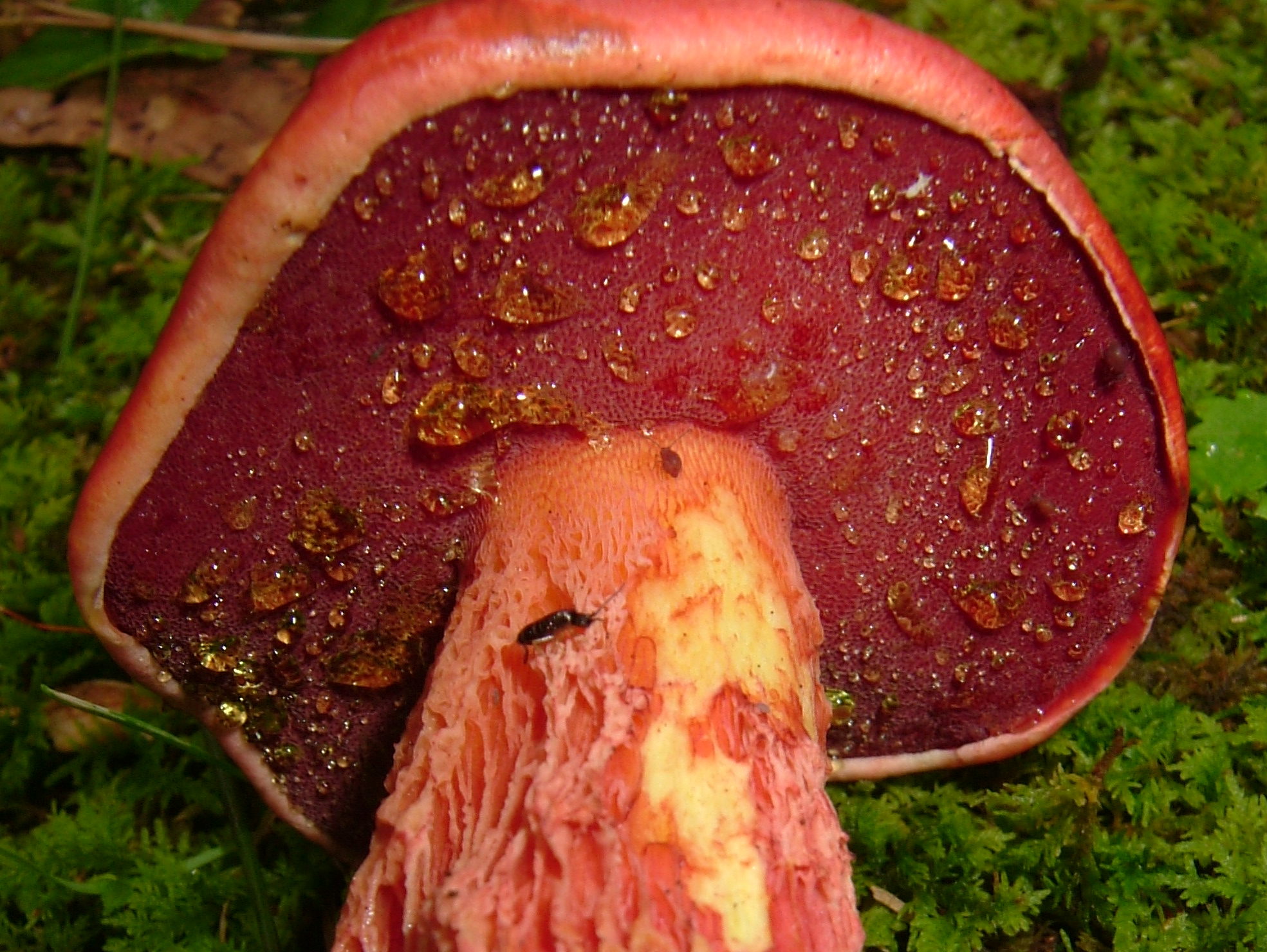 Boletus frostii Russell Image location: Pattenburg, Hunterdon Co., New Jersey, USA Recognized by sight For more information about this, see the observation page at Mushroom Observer.